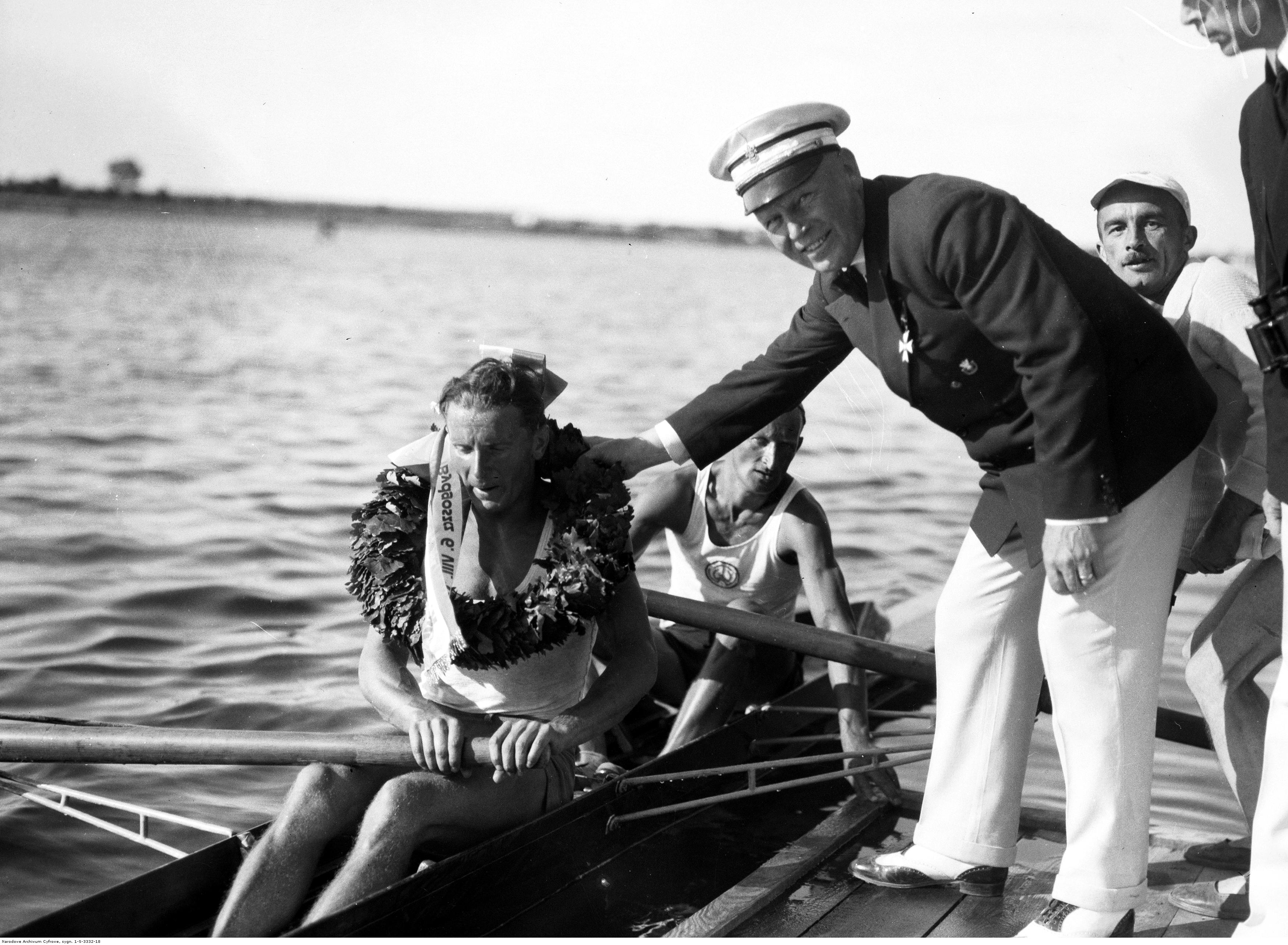 Rowing championship of Poland in Brdyujście (a suburb of Bydgoszcz). The winners of the men's coxless pair Henryk Grabowski and Wiktor Szelągowski from the Włocławski Rowing Association are congratulated by the president of the Polish Association of Rowing Societies, Jerzy Bojanczyk.